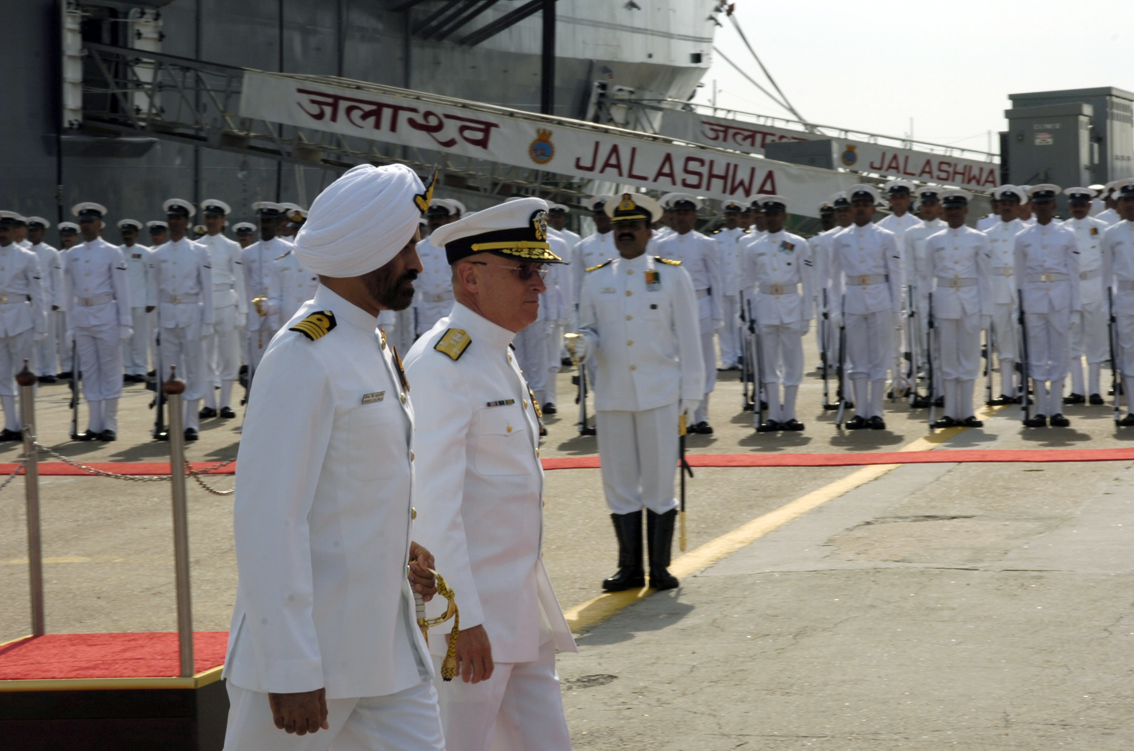 Indian navy Capt. Brinder Ahluwalia, commanding officer of landing platform dock INS Jalashwa (LPD 41), participates in the commissioning ceremony of the ship at Naval Station Norfolk. The amphibious transport ship, formerly known as USS Trenton, was transferred from the U.S. Navy to the Indian navy.